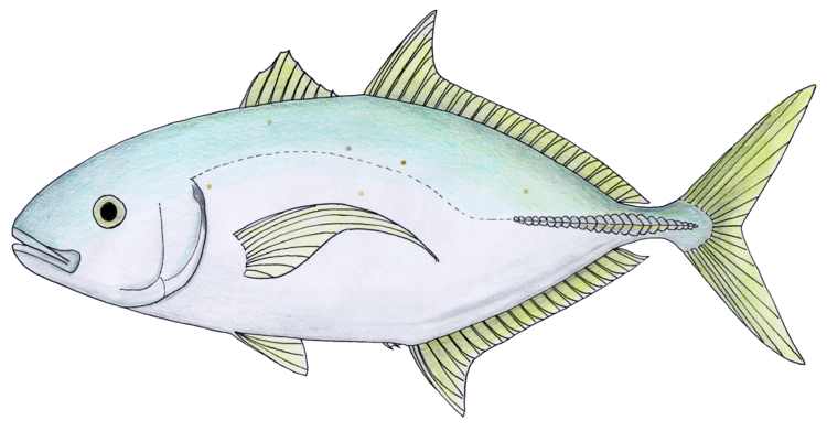 Hand drawn and coloured diagram of the bludger, Carangoides gymnostethus. Based on fishbase photograph